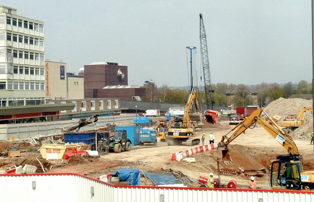 Derby Playhouse Work in progress on Derby Shopping Centre